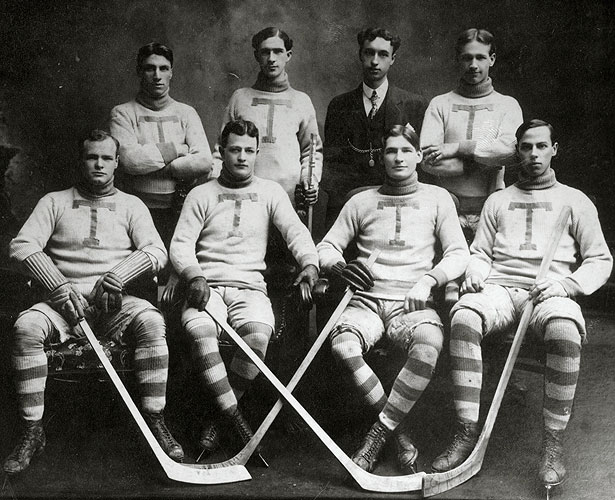 Team photo of the Toronto Professional Hockey Club in the 1906–07 exhibition season. Front row, left to right: Rowley Young, Charlie Liffiton, Harry Burgoyne, Hugh Lambe. Back row, left to right: William Slean, Jack Carmichael, B. Spanner, Bruce Ridpath.